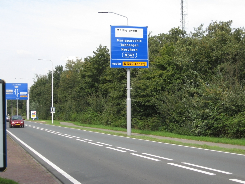 Dutch Provincial road 349 as part of the ring road of Almelo